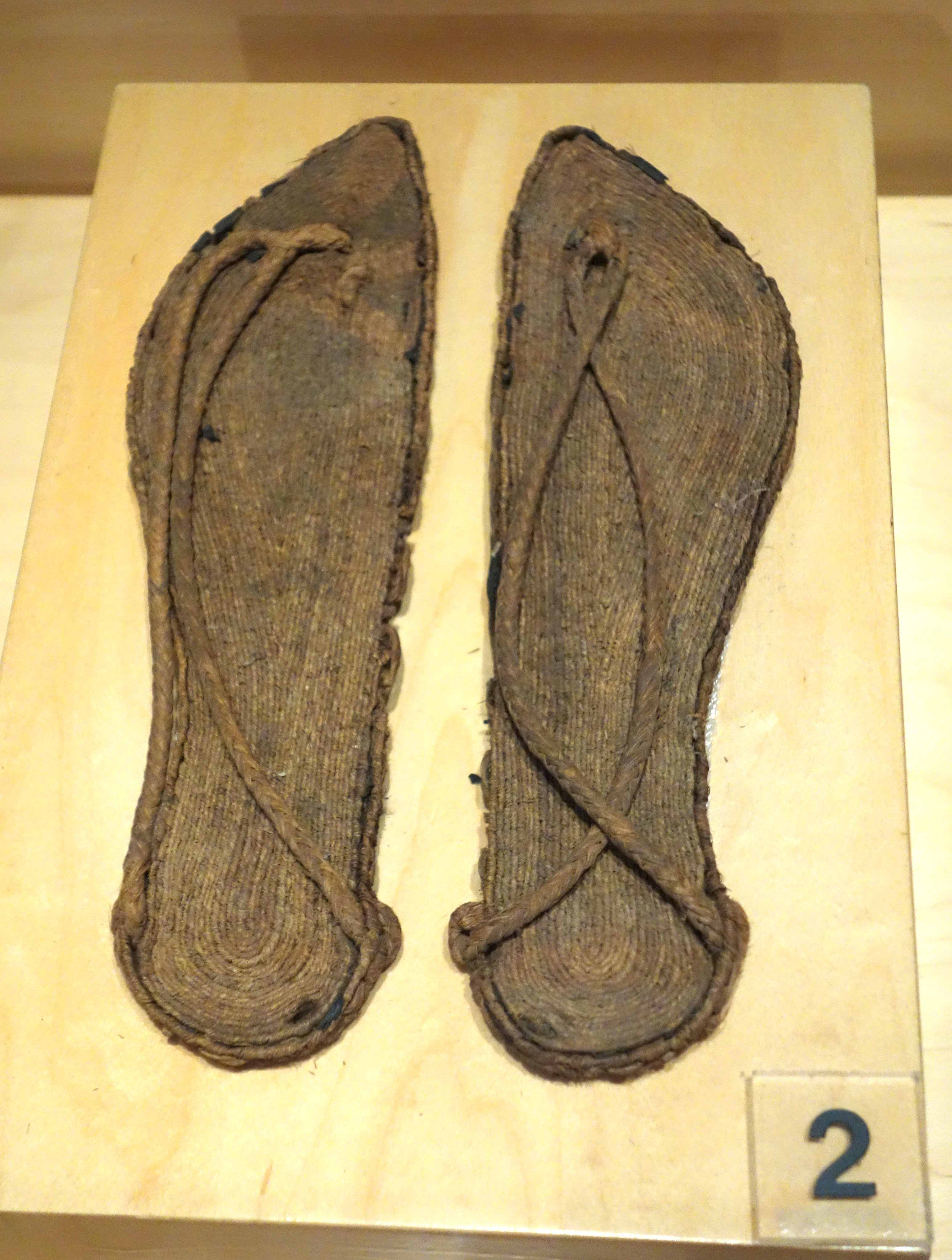 Exhibit in the Bata Shoe Museum, Toronto, Ontario, Canada. This item is old enough so that its design is in the public domain. The museum permitted photography without restriction.